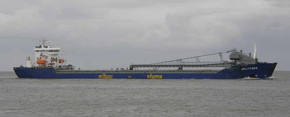 Name of Vessel: Mv Splittnes Call sign: V2EA7 IMO Number 9101730 Classification: German. Lloyd Class. No. 99402 Type of vessel: Bulk carrier self unloading Built: 1994 / rebuilt: 2006 Yard of built: Kvaerner Kleven Leirvik Length o.a. 166,2 m Length p.b. 158,47 m Gross Tonnage: 11538 Net Tonnage: 5388 Beam: 20,5 m Max Draft: 9,52 m Deadweight 18.964 t Light Ship Crew: 17 Holds: 7 Main Engines: Wärtsilä type 6 R 32 D, Output 2 * 2220 kW Aux. Gen. Diesel: MTU, Output 2 * 550 kW Bow Thruster: Brunvoll 1000 kW Stern Thruster: Brunvoll 660 kW Propeller: var. Pitch Service Speed 14 kn, Maximum Speed 15 kn Discharging rate: max 2,000 t/h Max outreach of boom: 55,0 m from ship’s side